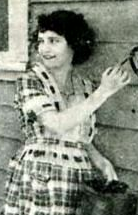 Sybil Seely in still from the American silent film One Week (1920) with Buster Keaton and her, as summarized in a series of stills on page 23 of the January 1921 Film Fun. The new bride adds hearts to their newly assembled home.